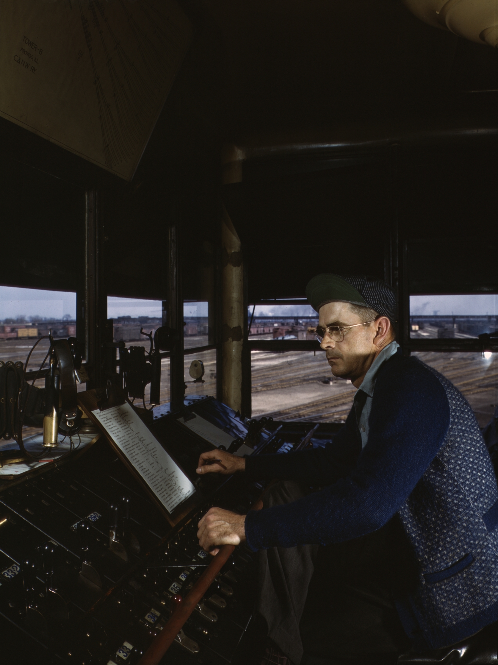 Chicago and North Western Railway towerman R. W. Mayberry of Elmhurst, Ill., at the Proviso yard. He operates a set of retarders and switches at the hump, Melrose Park near Chicago, Illinois.